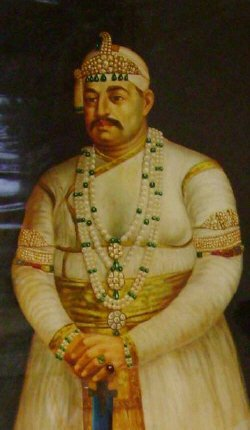 Nasir_ud-Daula, Asaf Jah IV